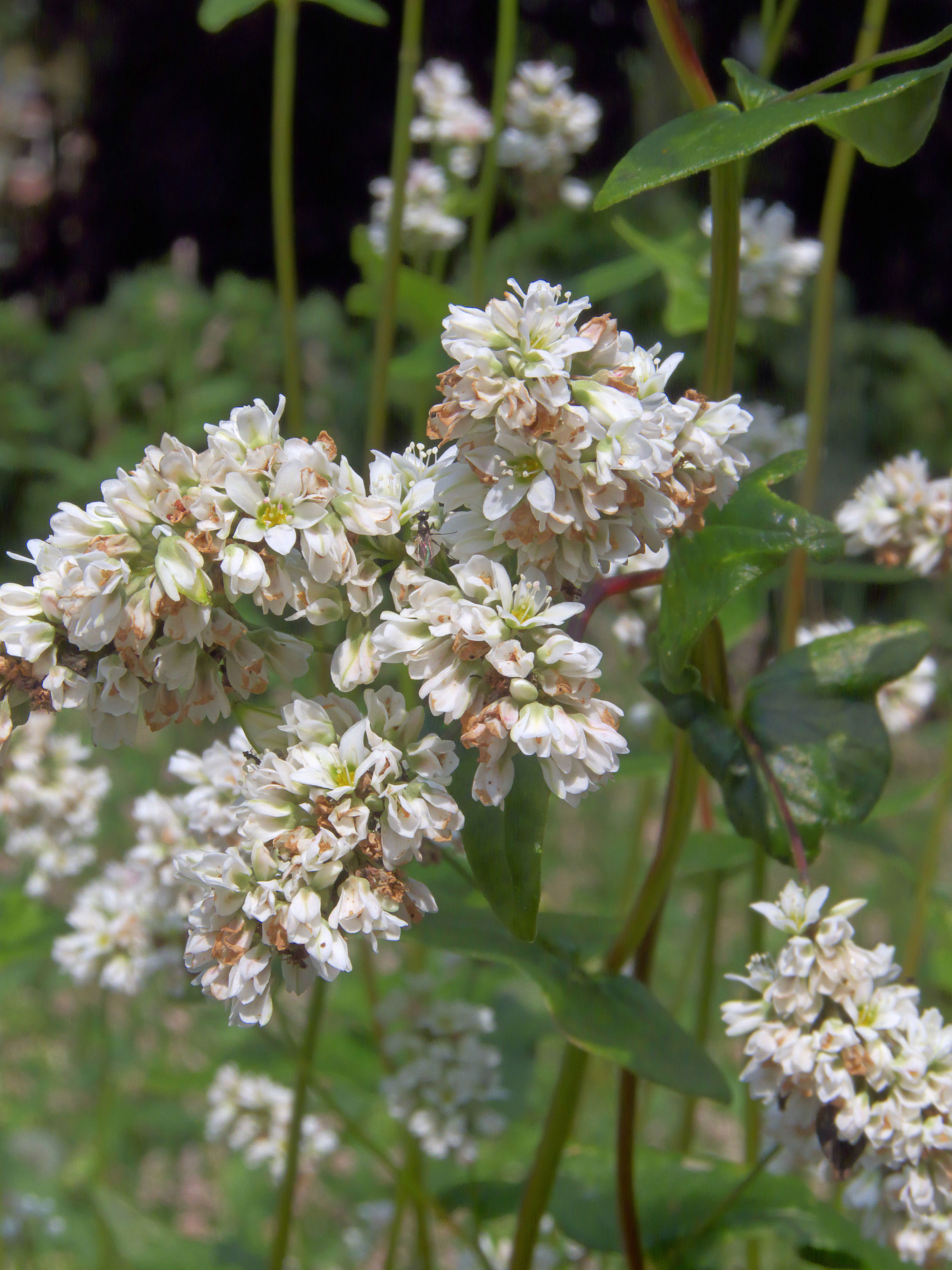 Fagopyrum esculentum flowers